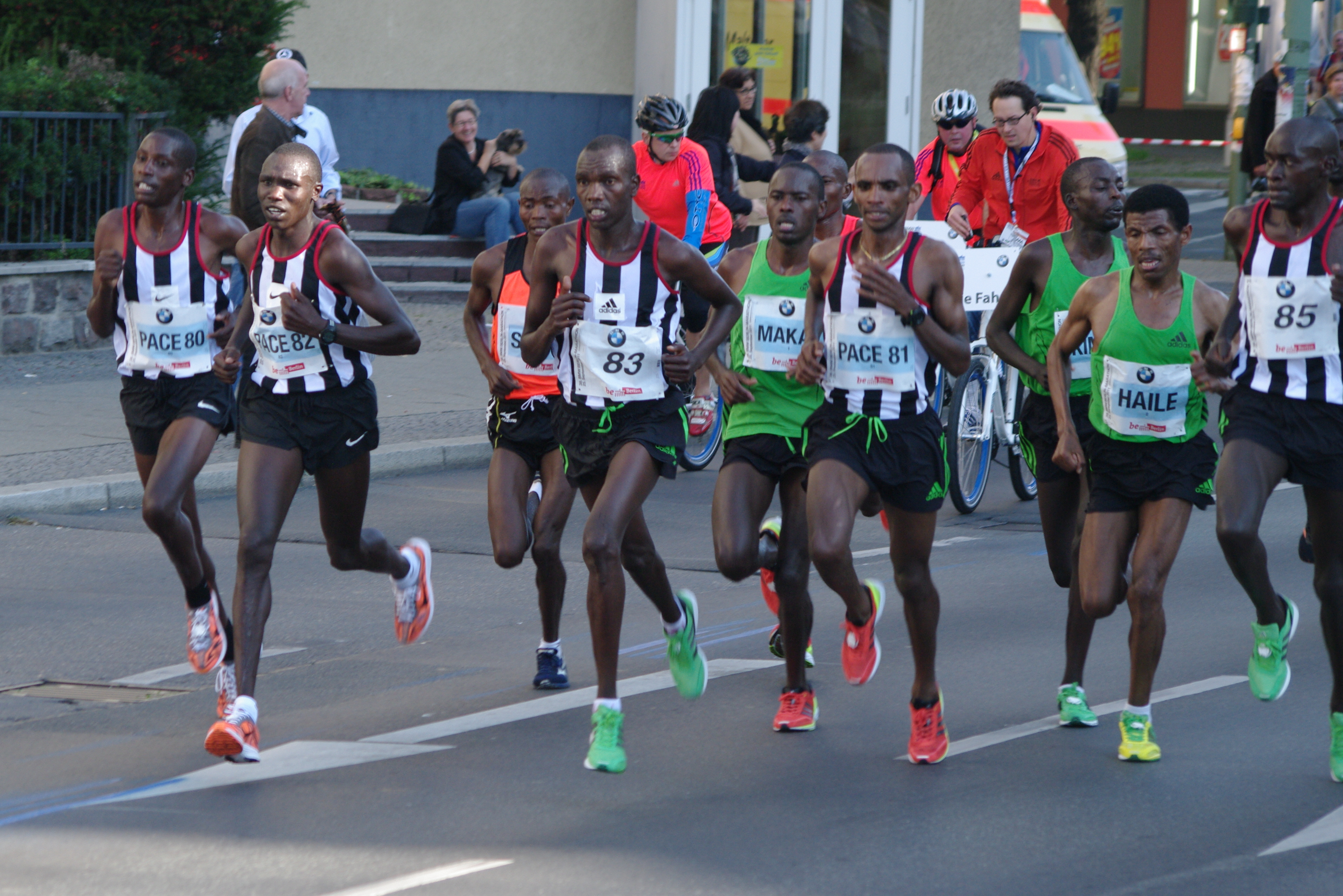 Berlin Marathon 2011 at km 24, Innsbrucker Platz